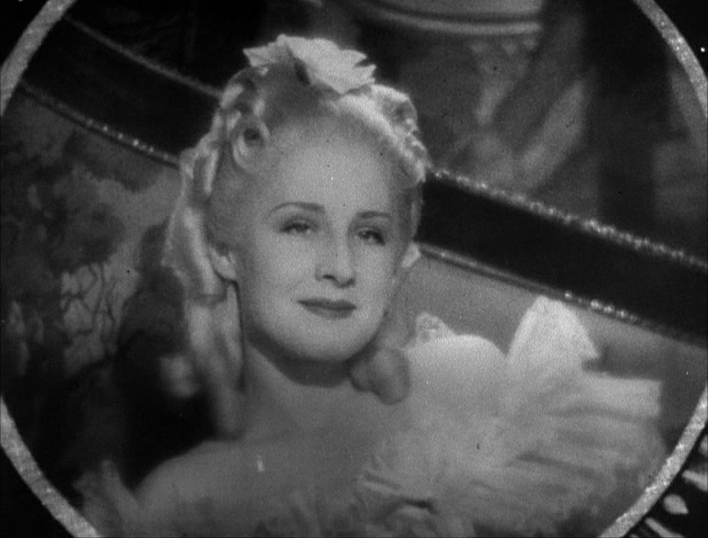 Cropped screenshot of Norma Shearer from the trailer for the film Marie Antoinette (1938).